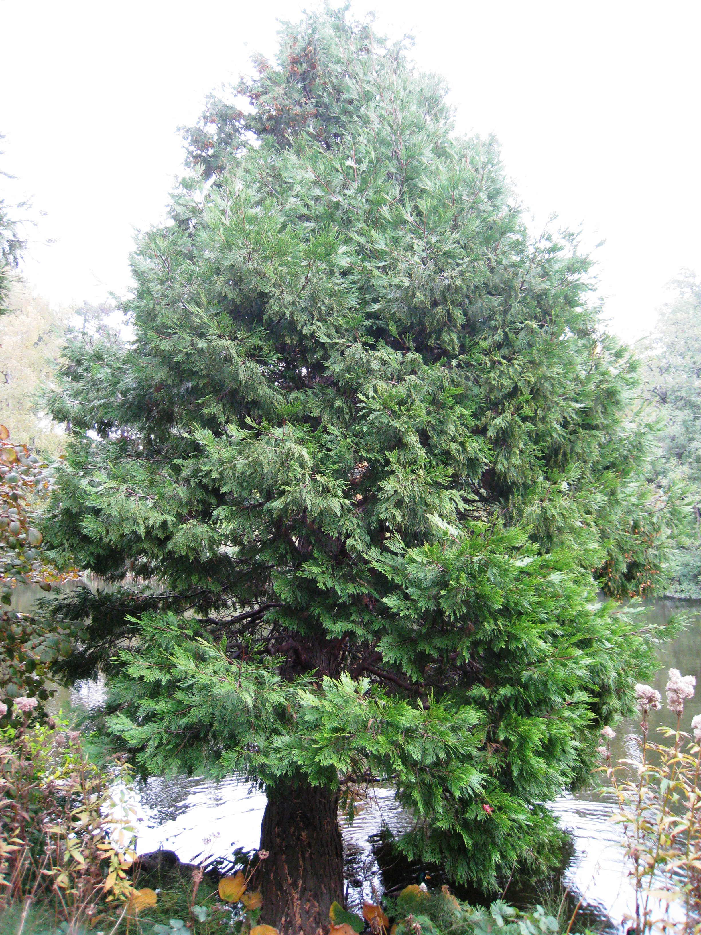 Specimen in cultivation at the Botanical Garden, University of Copenhagen, Denmark.